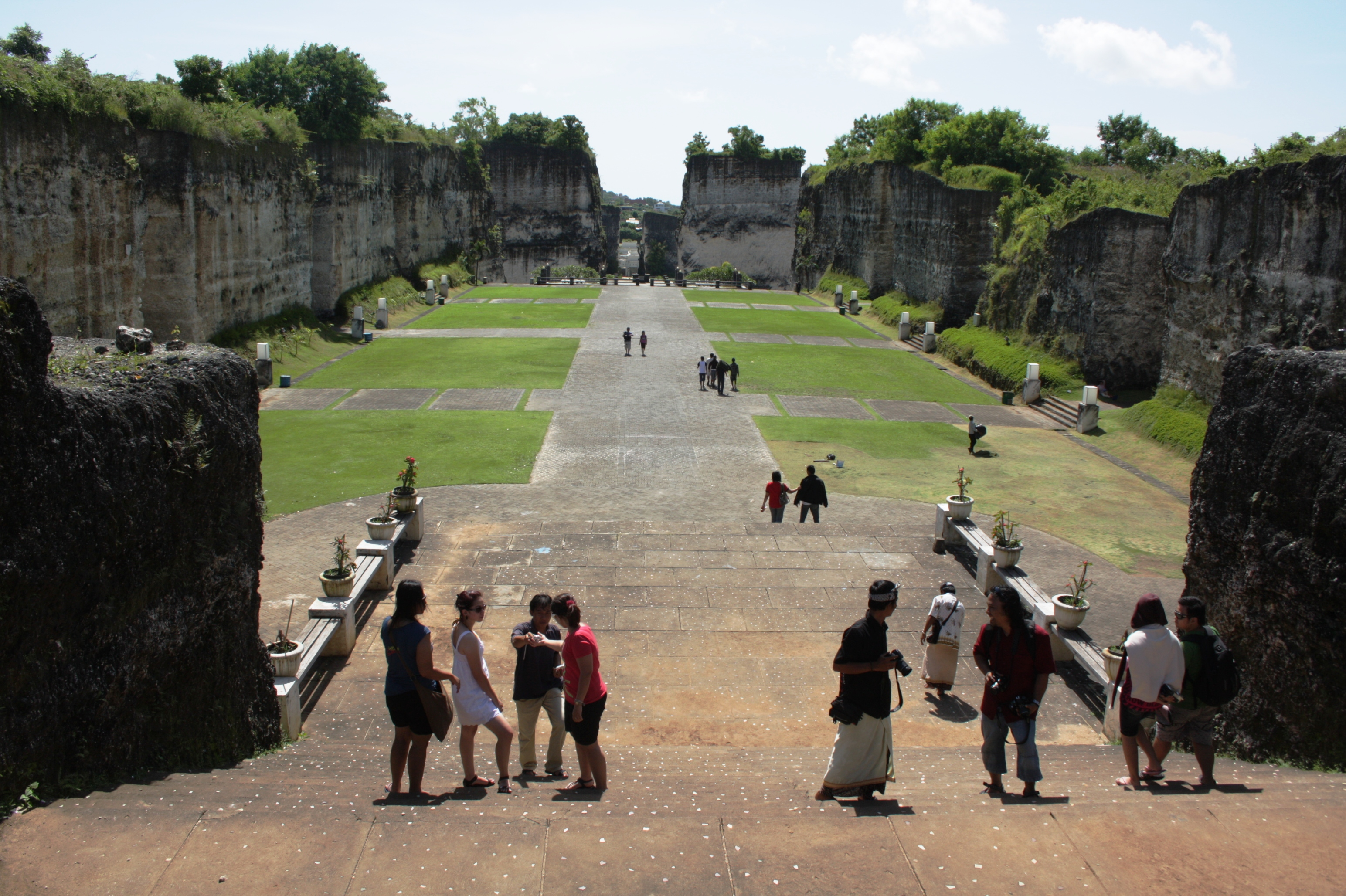 Garuda Wisnu Kencana Plaza hall at southern Bali